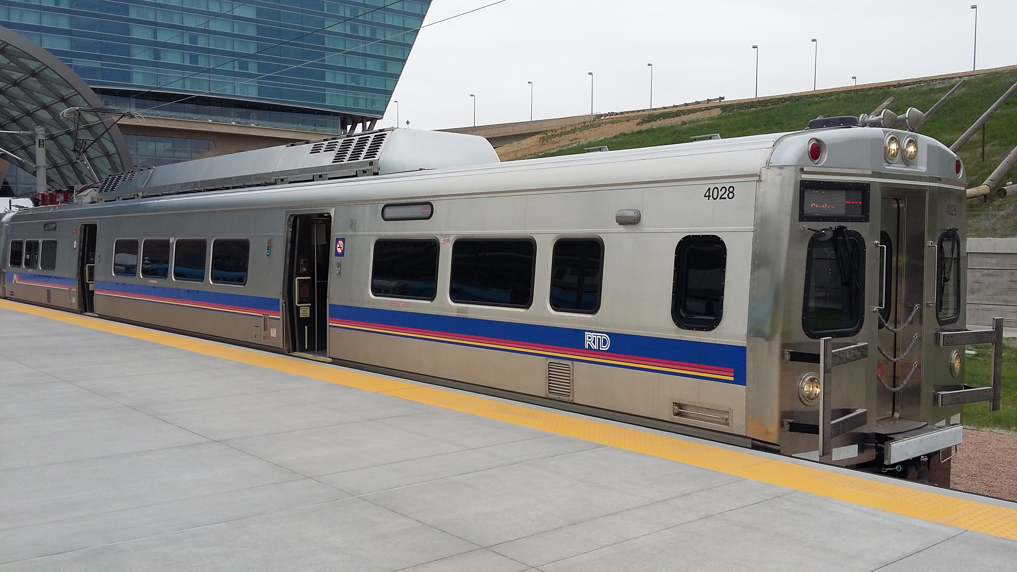 4028 at Denver Airport Station during the Grand Opening of the University of Colorado A Line.